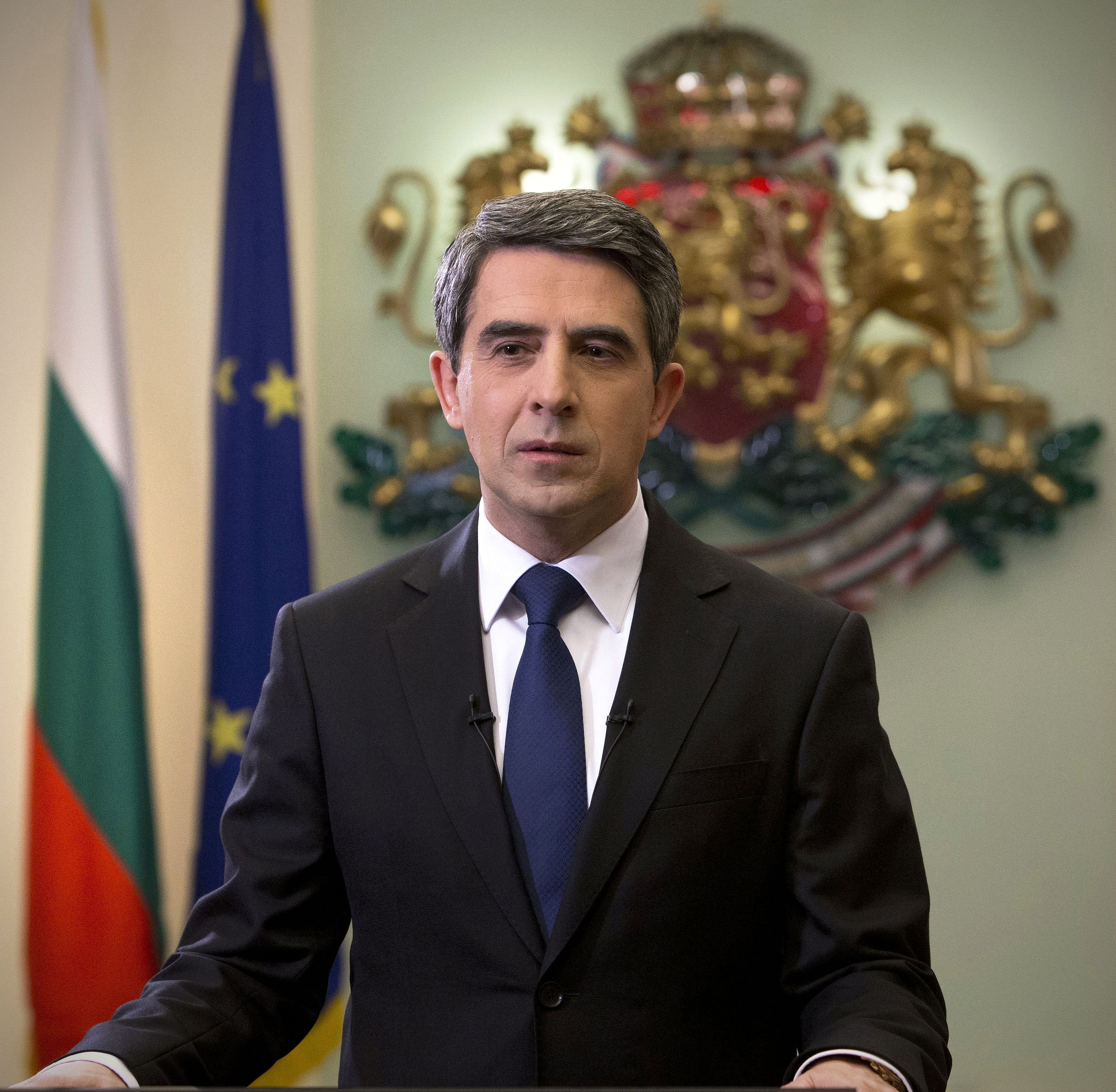 Bulgarian president Rosen Plevneliev giving a speech congratulating 2015.